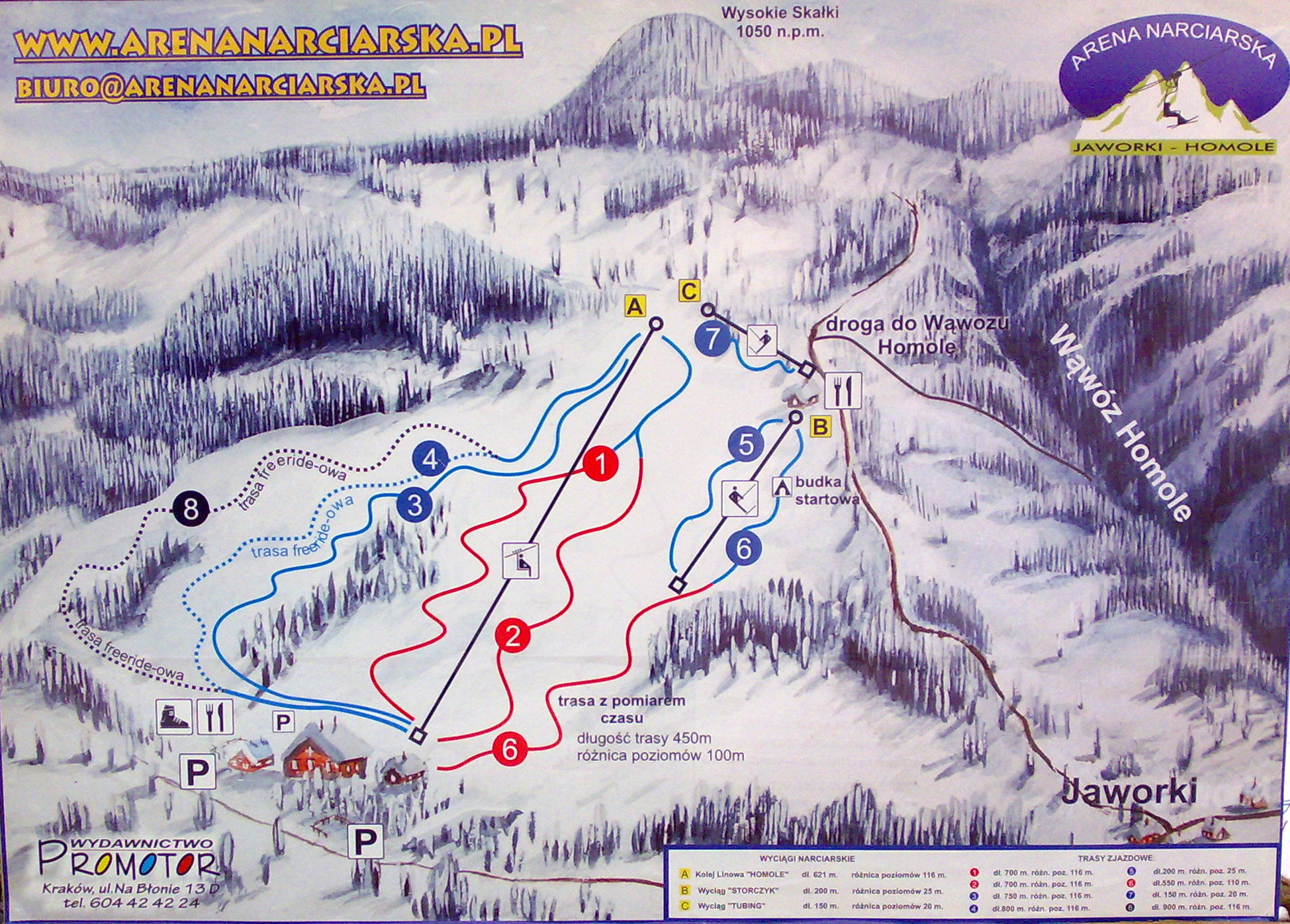 Jaworki ski trails